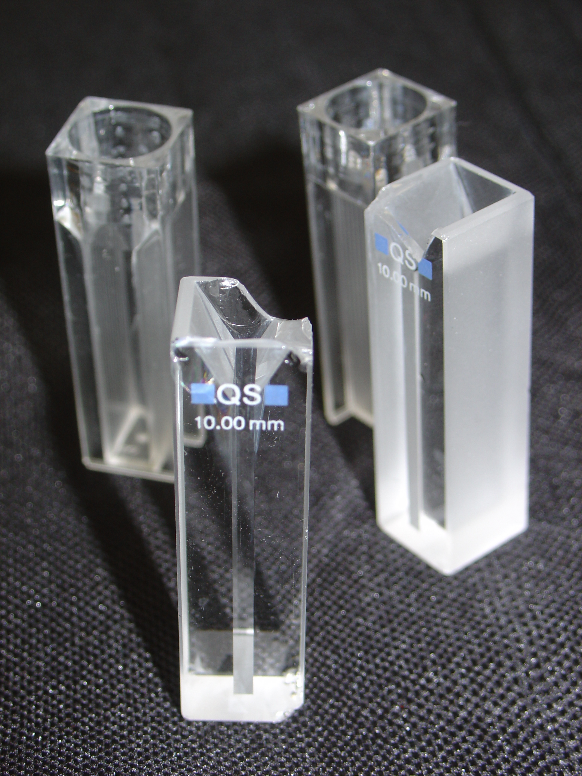 Spectrophotometer cuvettes: quartz (UV) and plastic (visible)